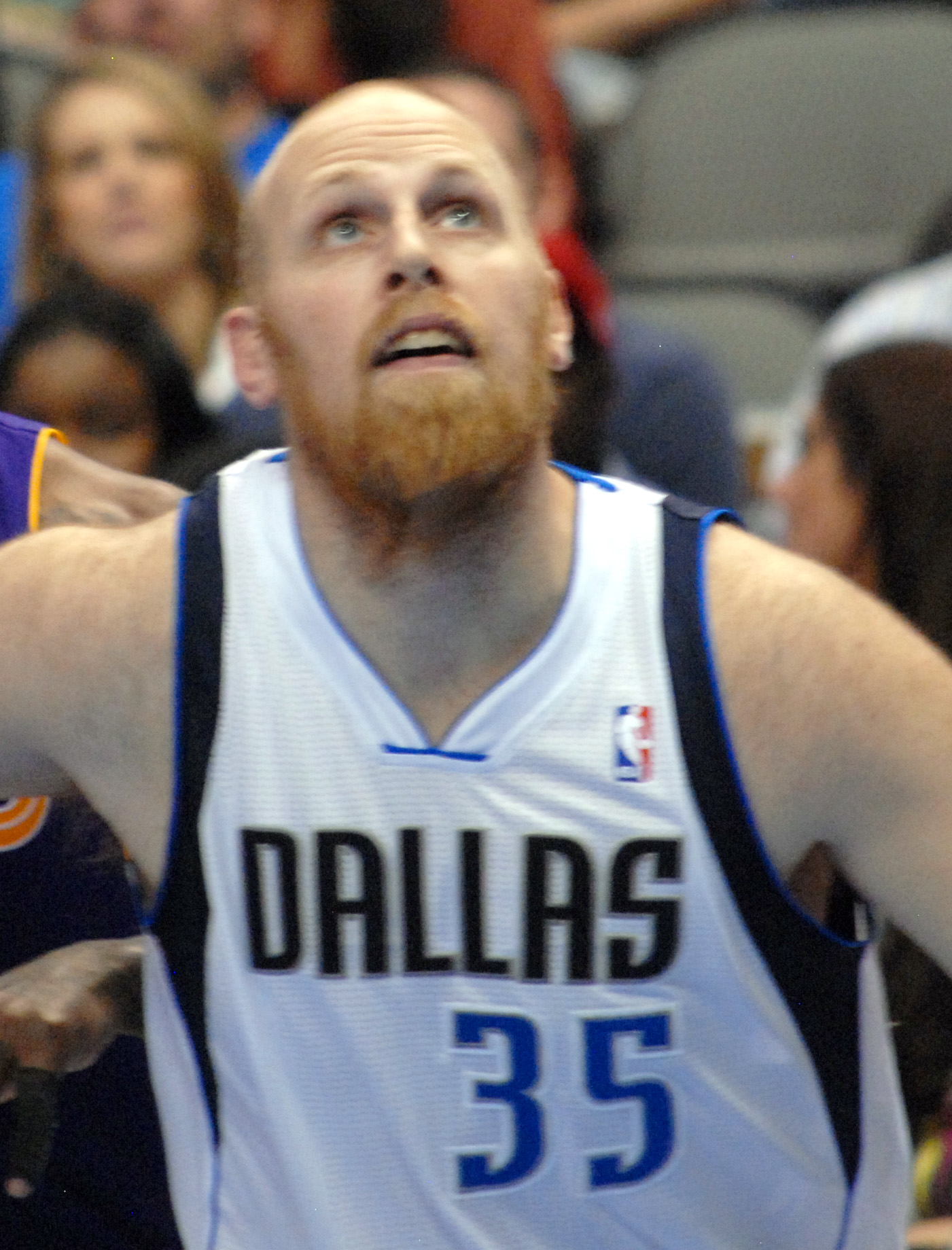 Chris Kaman with the Dallas Mavericks, February 2012.